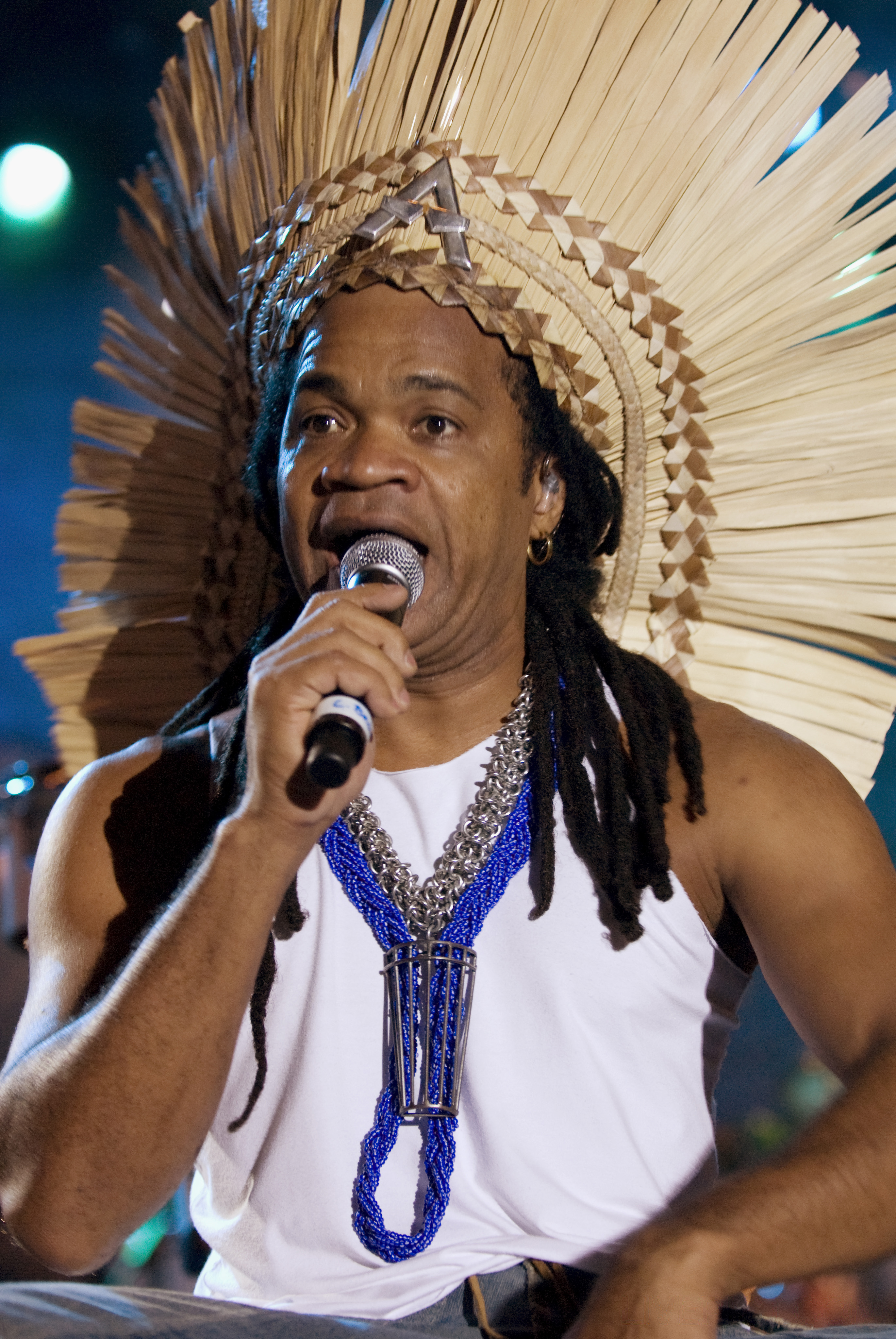 Carlinhos Brown